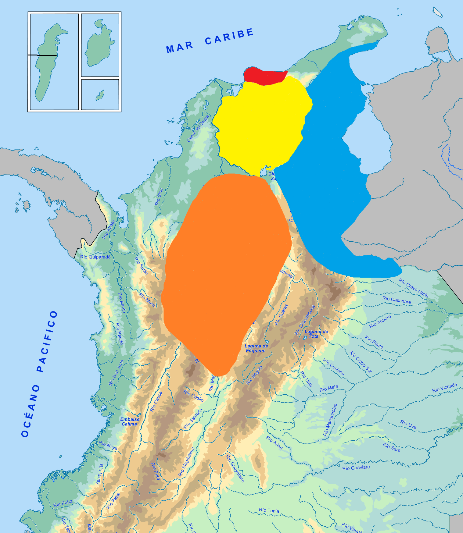 Distribution of northcolumbian Gracile capuchin monkeys